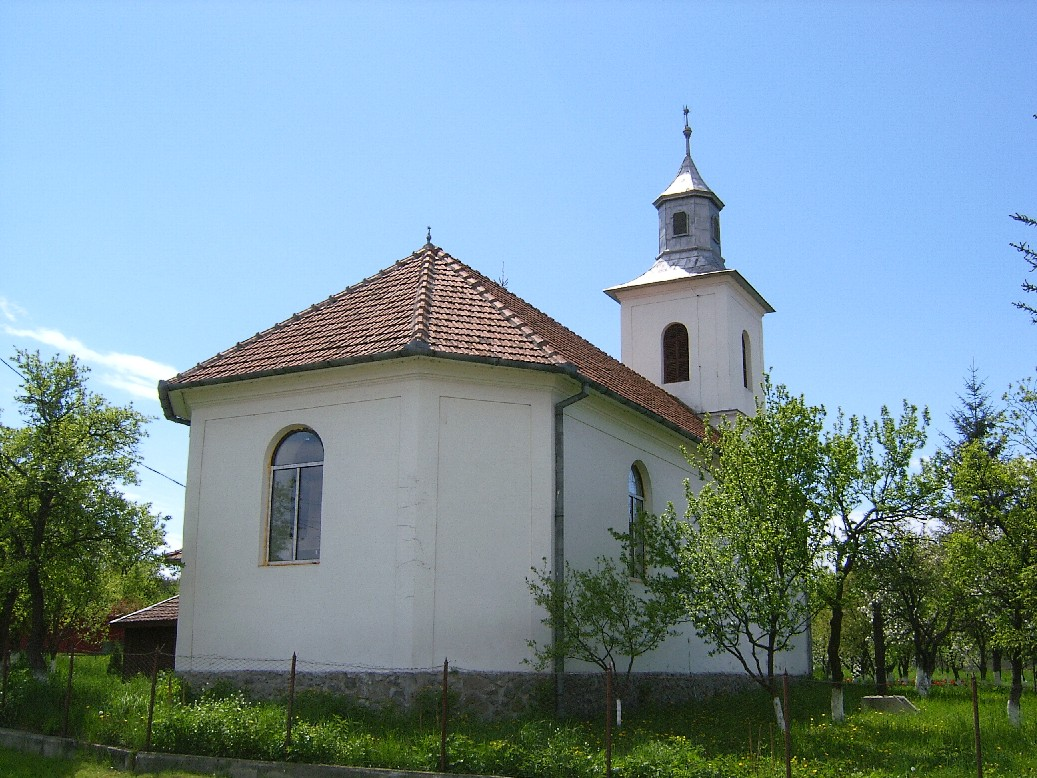 Reformed church of Săula, Transylvania